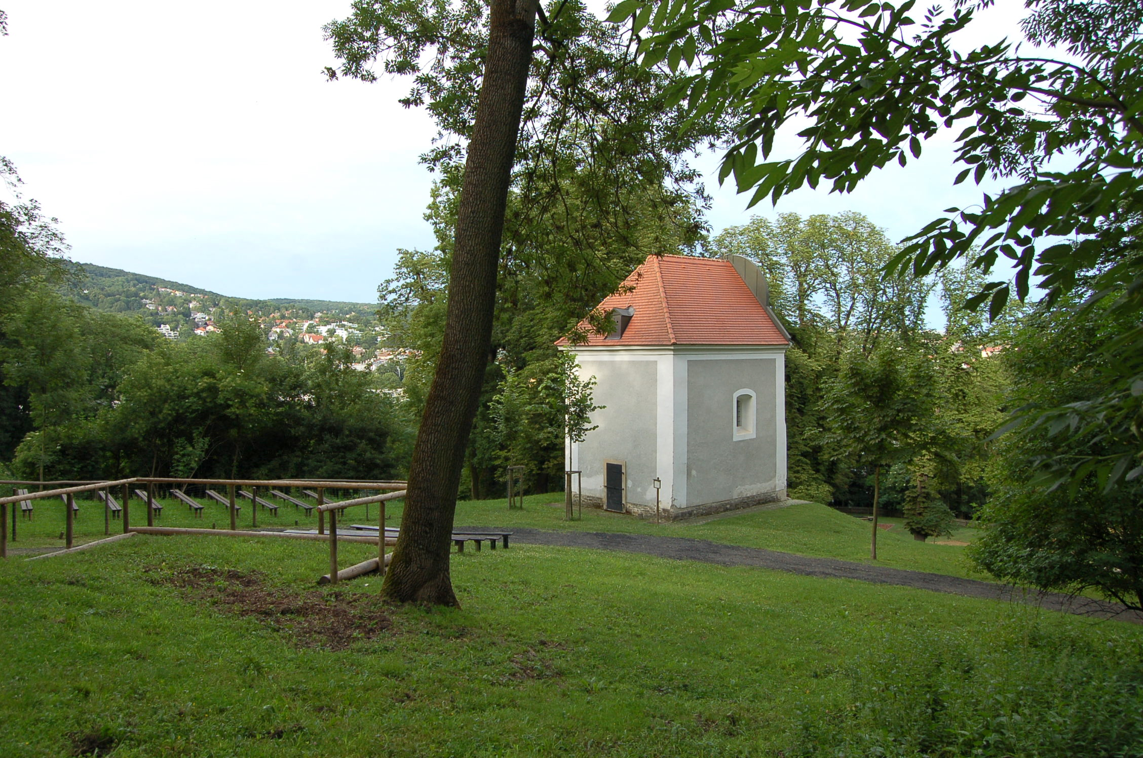 Nikolaikapelle, situated in Lainzer Tiergarten near Nikolaitor (i.e. St Nicholas gate) in Vienna's 13th district